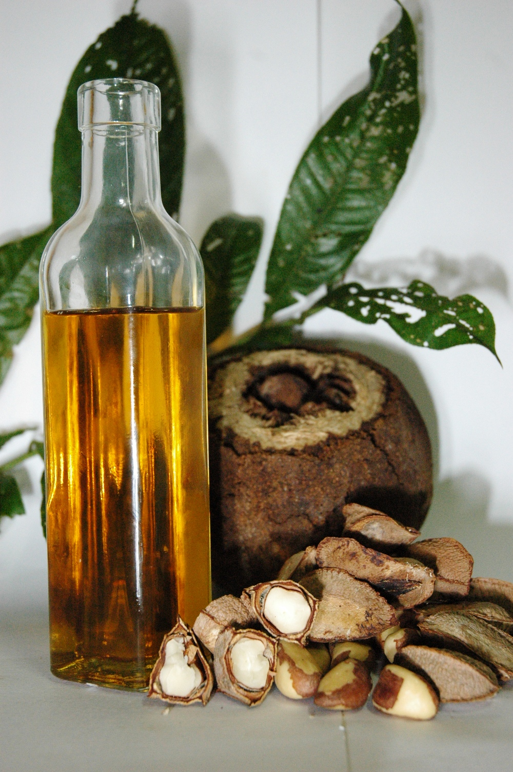 Virgim oil of Pará's nut